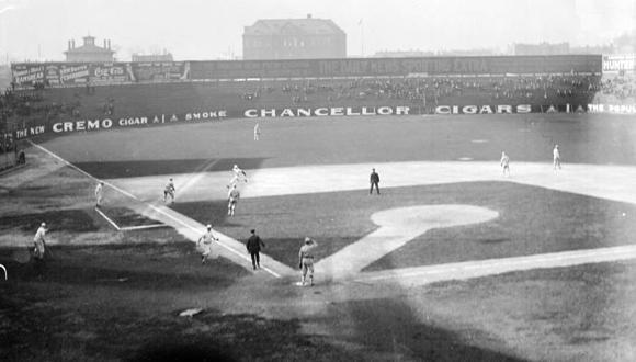 Photo from Chicago Daily News negatives collection. Game action at South Side Park, 1907. [1]